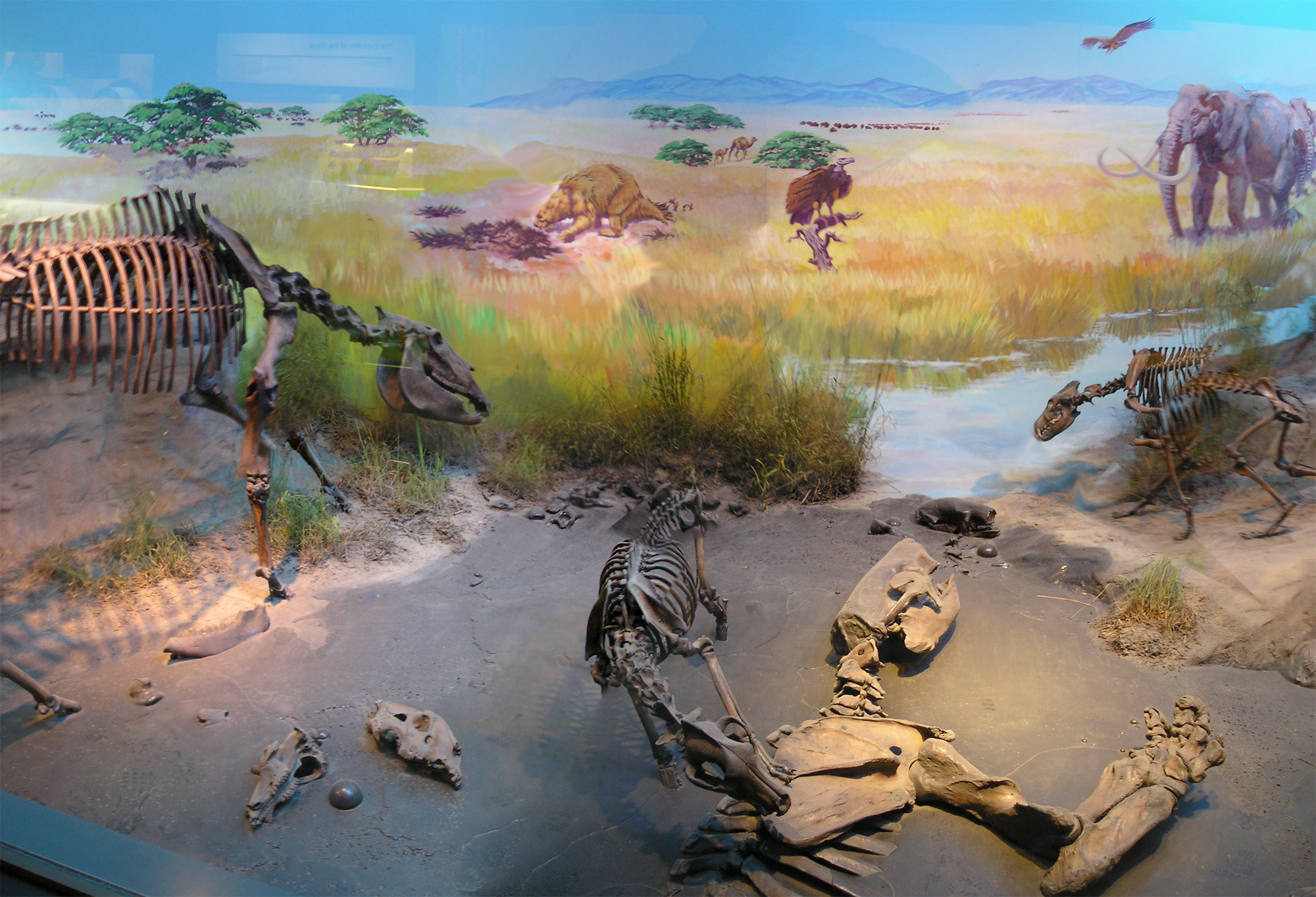 La Brea Tar Pits – LeBrea panorama on display at the old Dinosaur Gallery at the Royal Ontario Museum, Toronto. Picture taken on the final day the gallery was open, September 1, 2005.